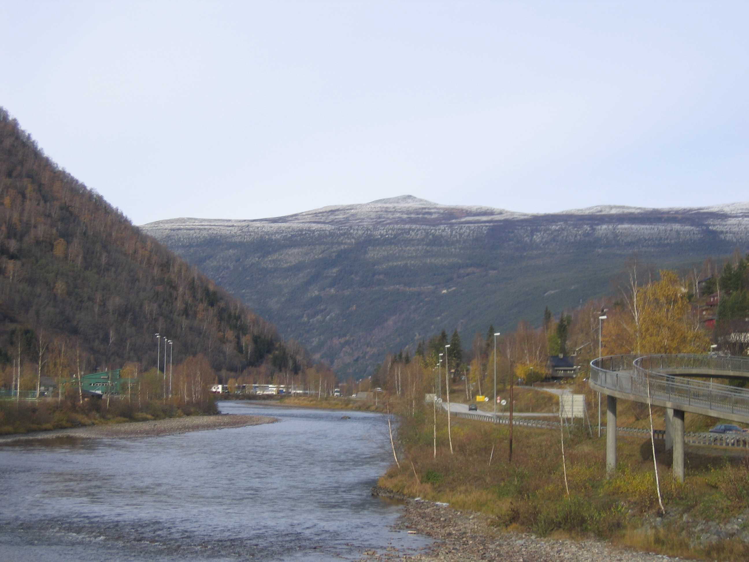 The river Gudbrandsdalslågen in Otta, Norway.